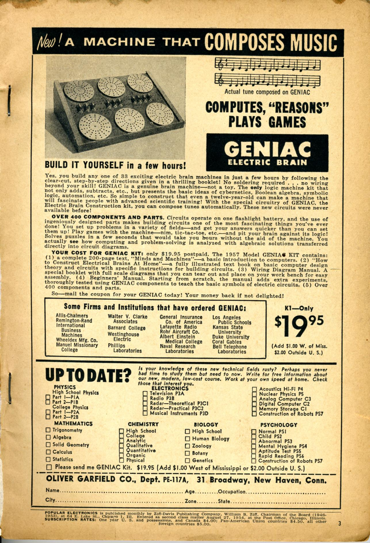 An advert for the GENIAC Electric Brain, from a 1957 edition of Popular Electronics.